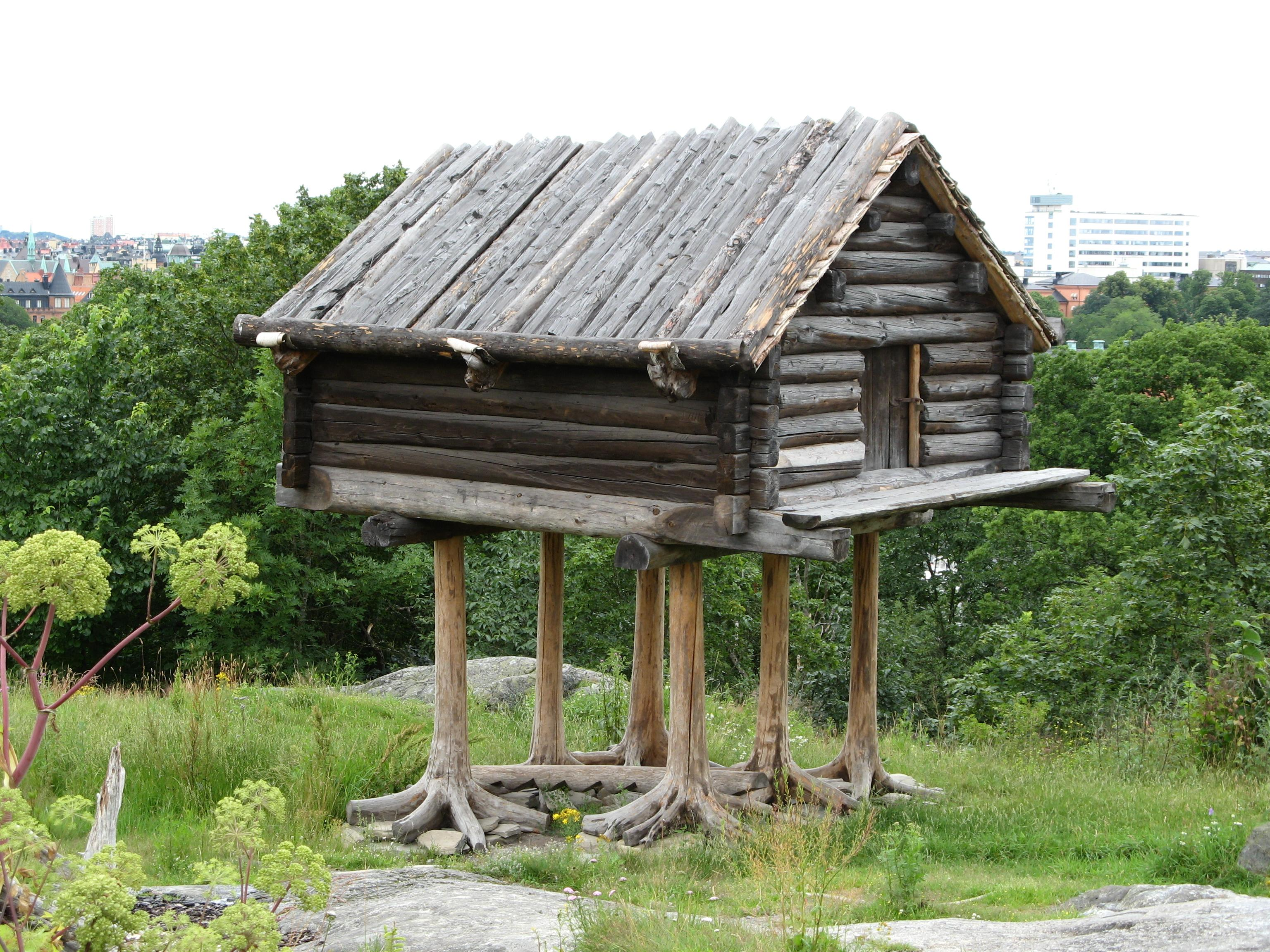 Sami Storehouse on stilts, displayed at Skansen in Stockholm